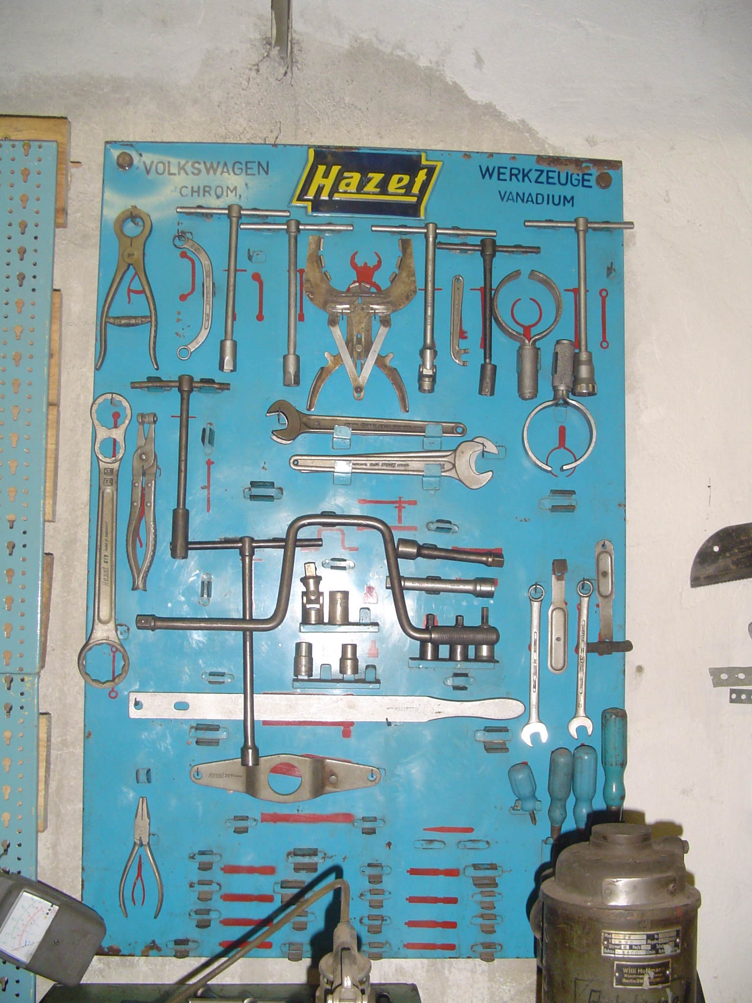 HAZET tool board for fifties beetle cars